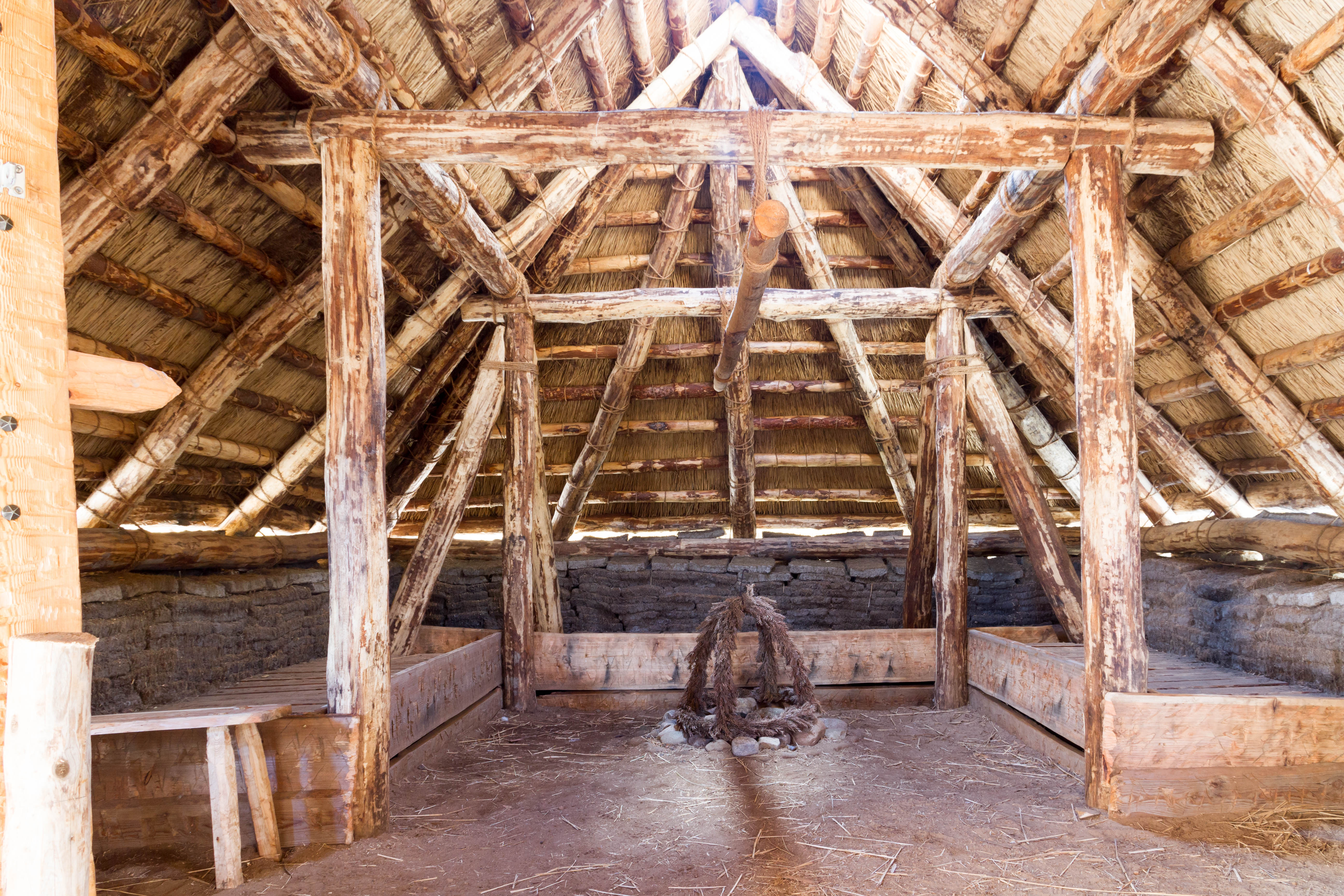 Nebel, Amrum, Schleswig-Holstein, replica of iron age house (interior) in the dunes, erected in 2014